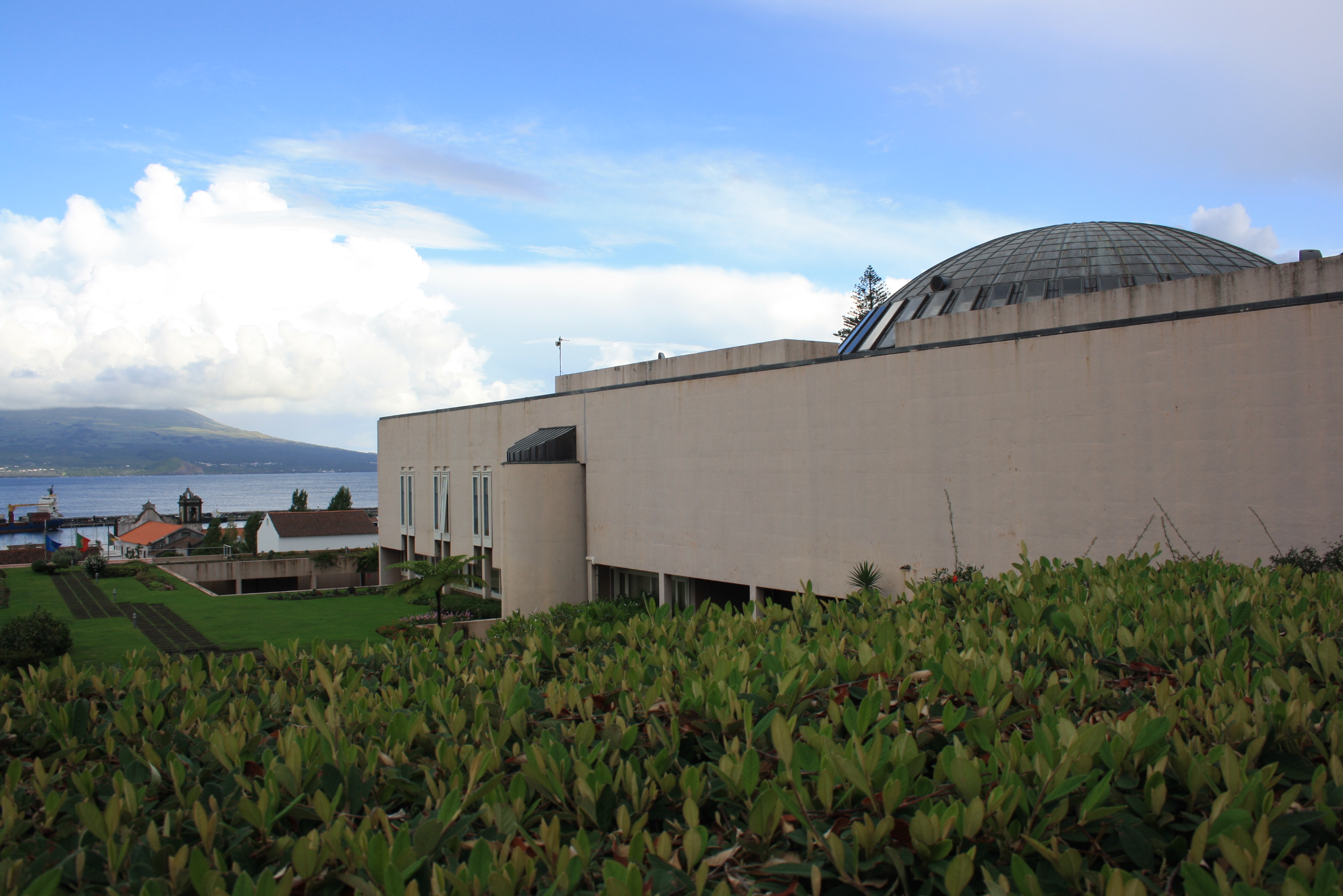 This building is classified as Imóvel de Interesse Público. This file was uploaded for Wiki Loves Monuments in Portugal with the unique identifier 98020002.